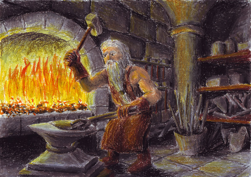 Thorin Oakenshield in his forge